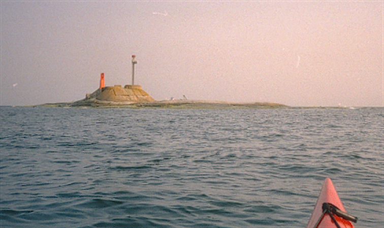 Halliluoto in Helsinki, on the Gulf of Finland. The southern edge of this little island is one corner of the straight territorial sea baseline of Finland.